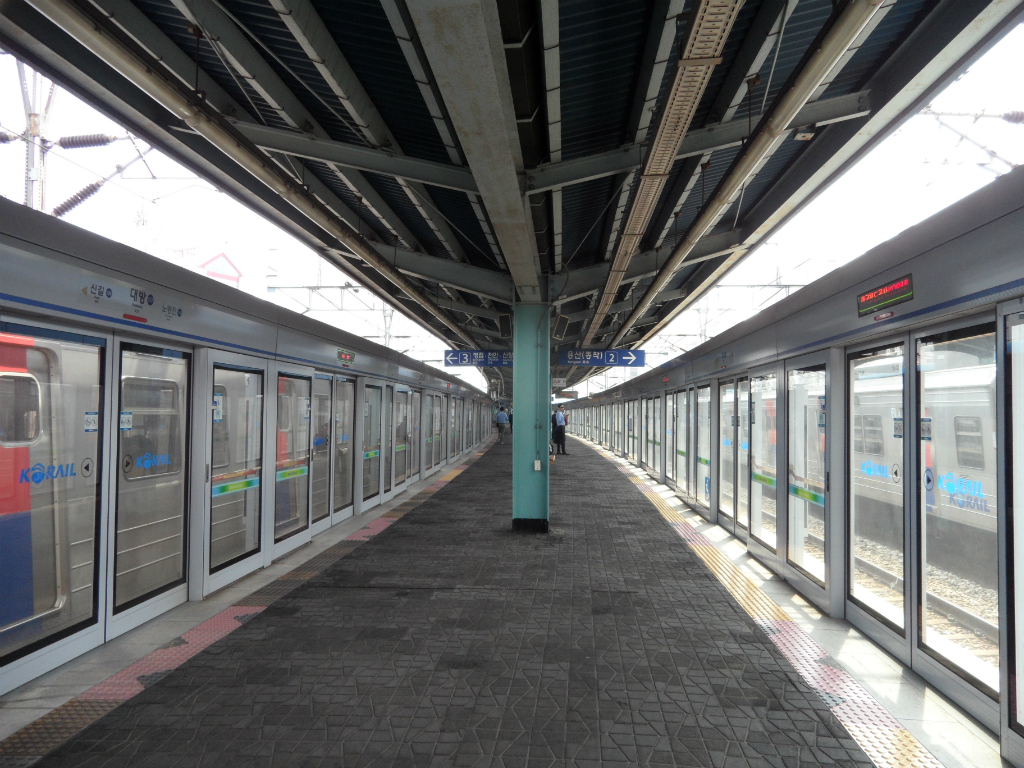 Daebang Station